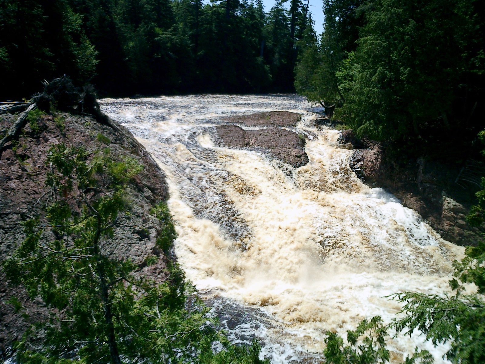 A photograph of Great Conglomerate Falls, on northern Michigan's Black River